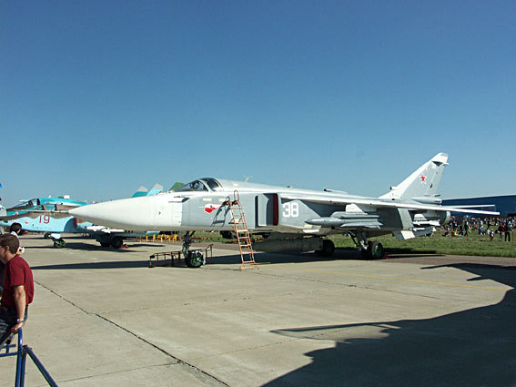 Sukhoi Su-24 at MAKS 2005 airshow.